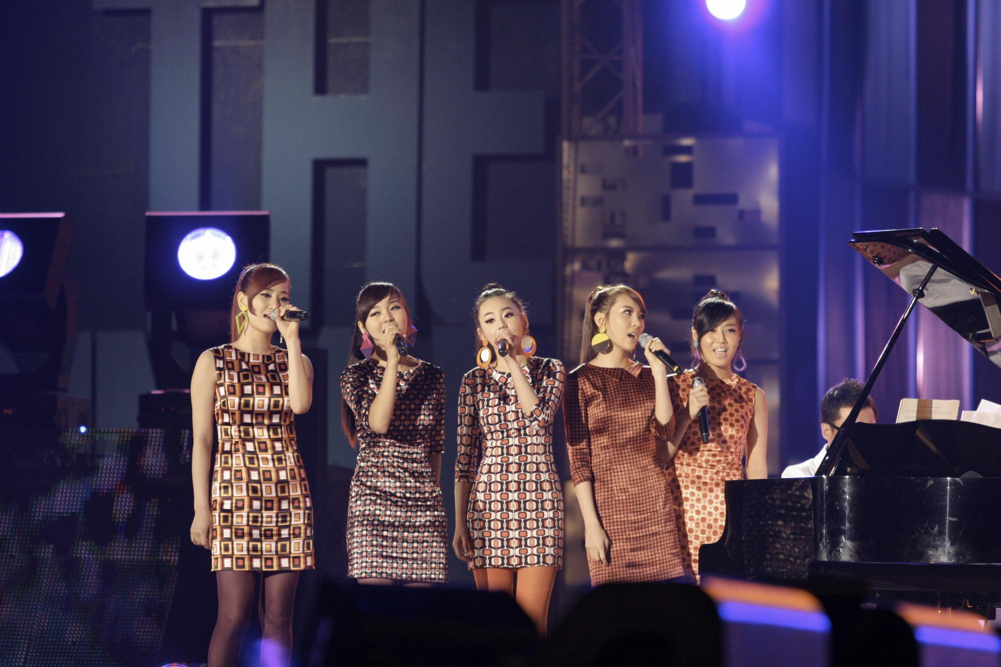 The Wonder Girls at the 2008 MBC Campus Song Festival.